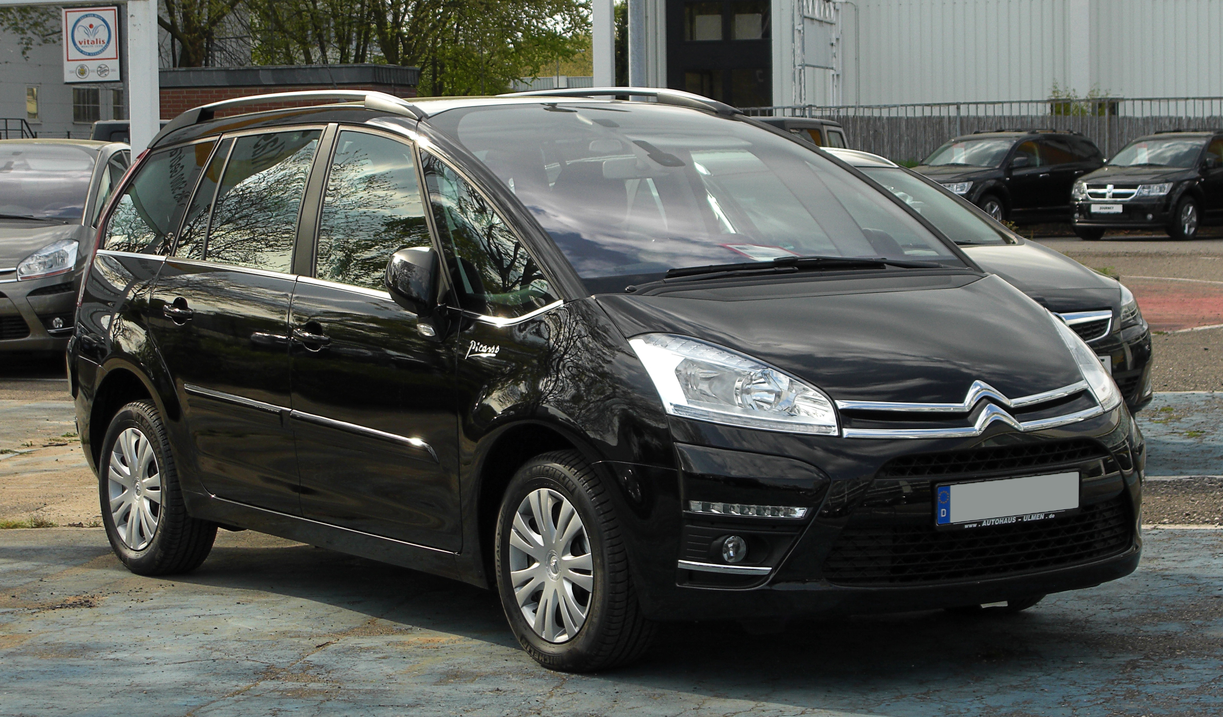 Citroën Grand C4 Picasso HDi 110 Tendance (Facelift)